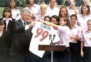 President Bill Clinton congratulating the Women's World Cup-winning United States women's national soccer team on the White House South Lawn and receiving a #99 jersey.